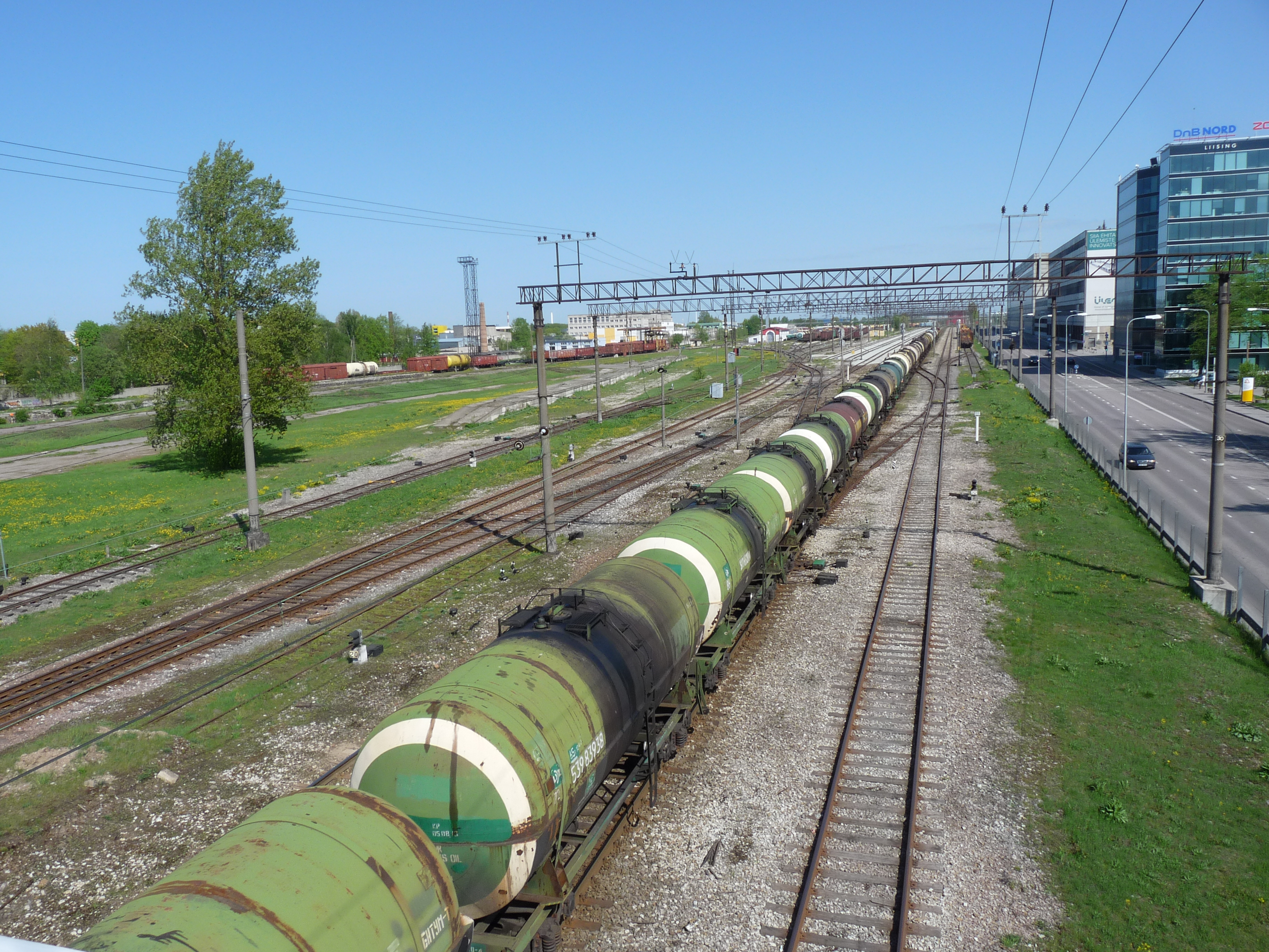 Train in Ülemiste, Tallinn